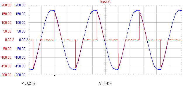 Voltage waveform of a thyristor dimmer adjusted to 60 volts RMS output with 120 V input. The load is incandescent lamp bulbs.